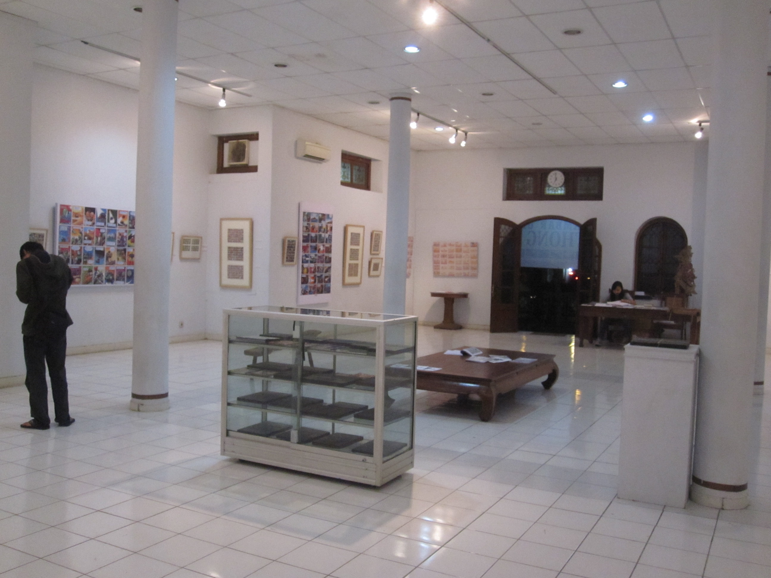 Indonesian comic's exhibition, 2010